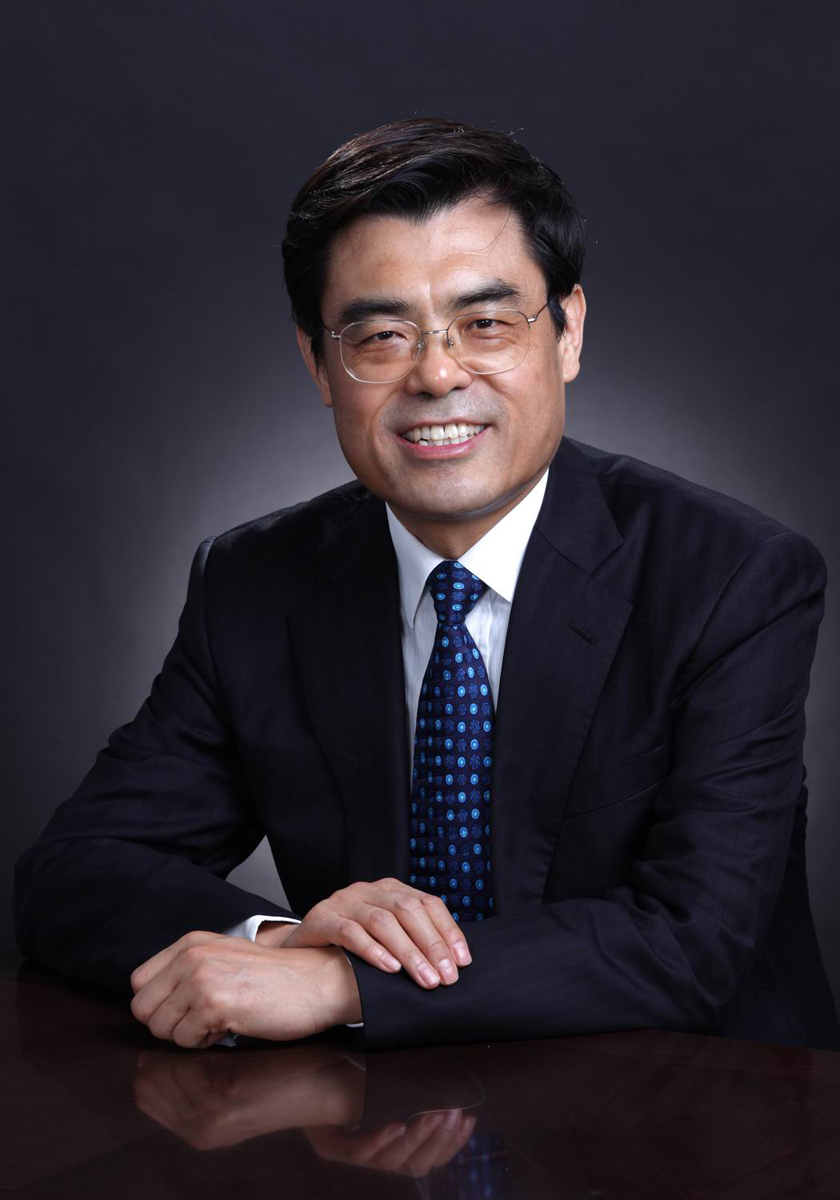 Yinbiao Shu